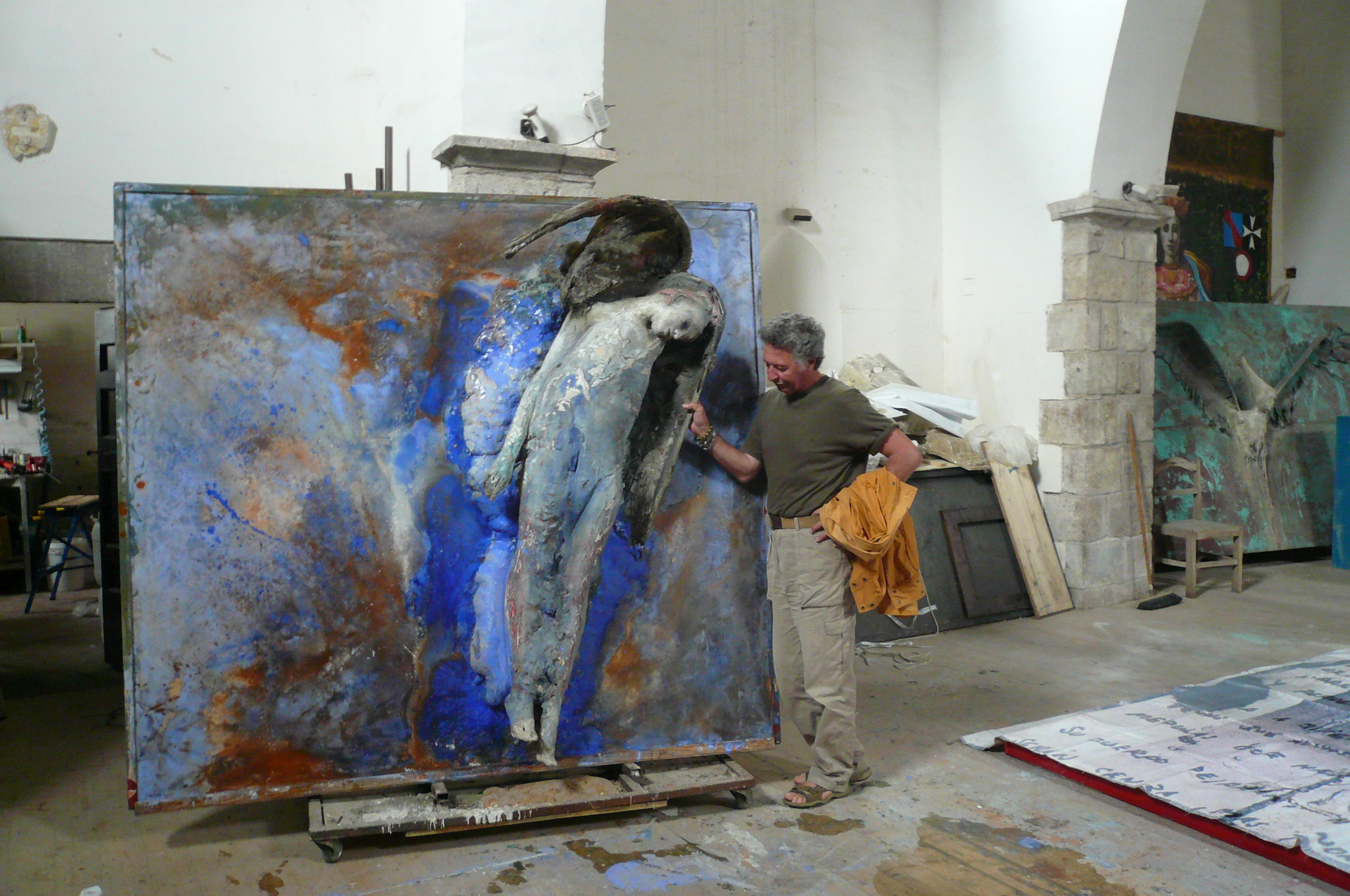 Kokocinski in his studio in Tuscania, with Come la tempesta senza fine, mixed media fibreglass on board